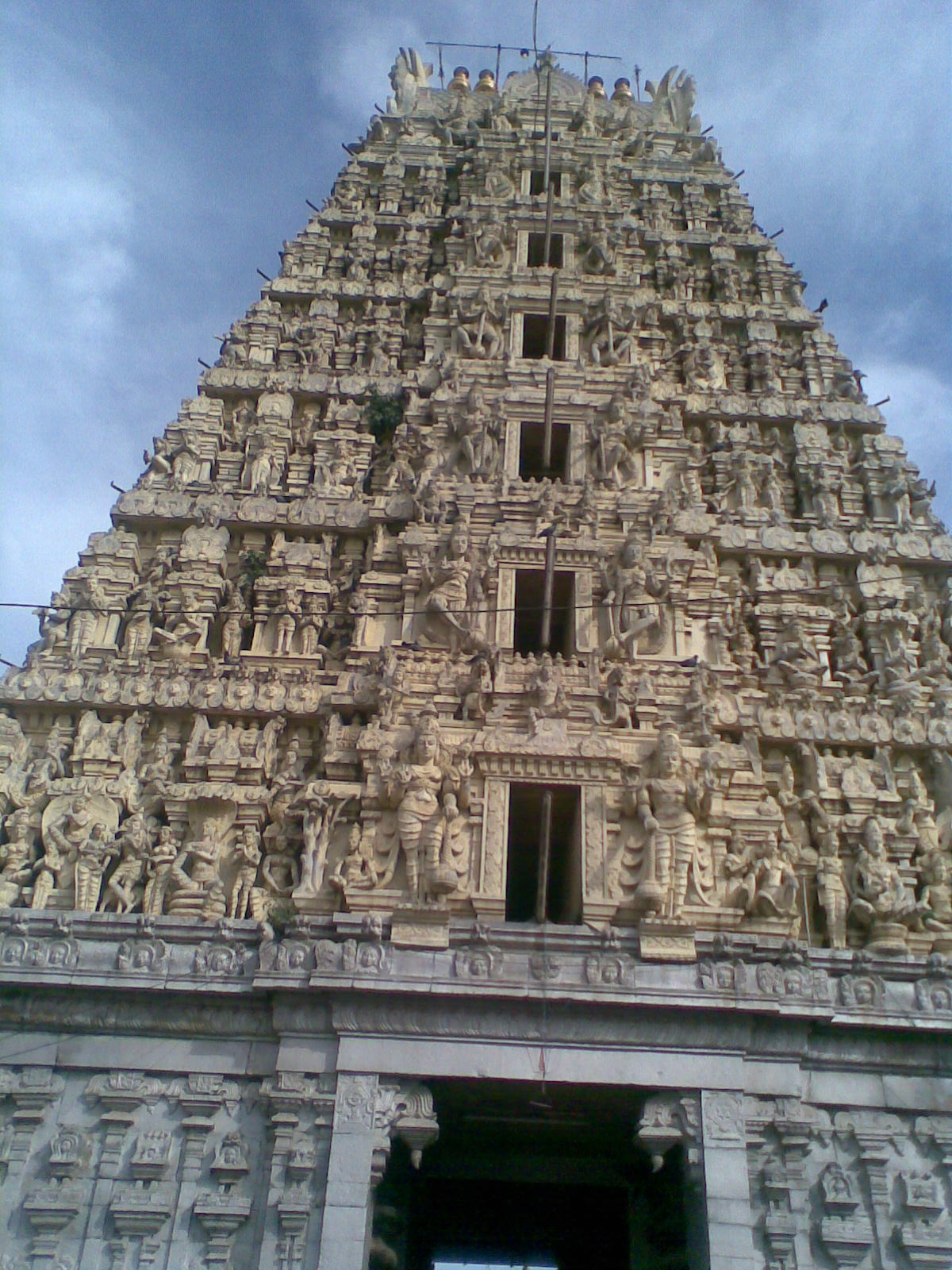 Sri Ranganathaswamy Temple, Galigopuram, Nellore